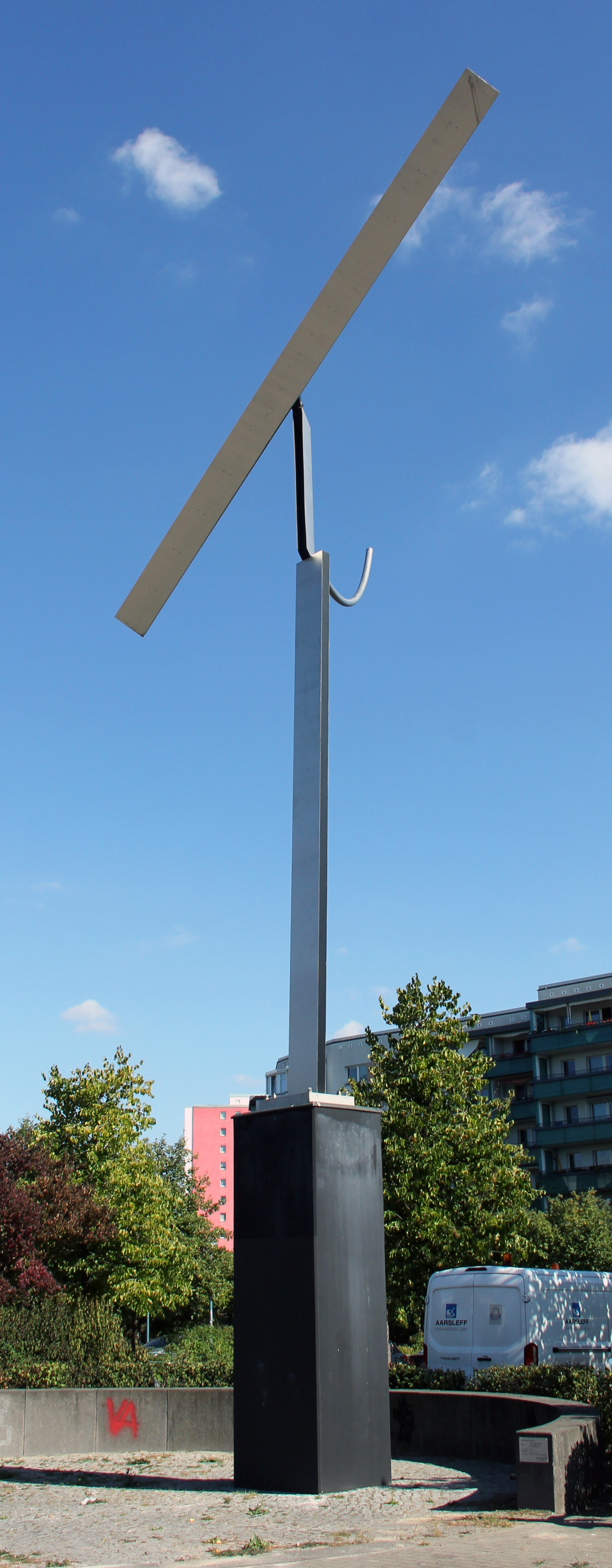 Sculpture, "2,43° vorwärts geneigt" by Rolf Lieberknecht, 1997, Gülzower Straße/Hellersdorfer Straße, Berlin-Hellersdorf, Germany